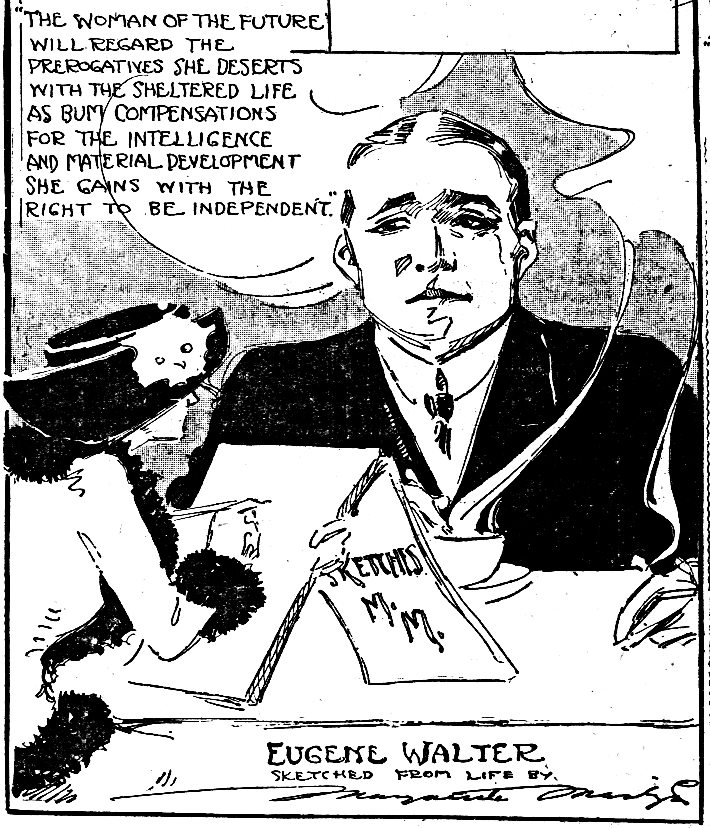 1911 drawing by Marguerite Martyn shows herself sketching playwright Eugene Walter, with a quotation from Walter